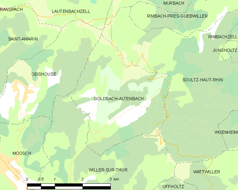 Map of French municipality